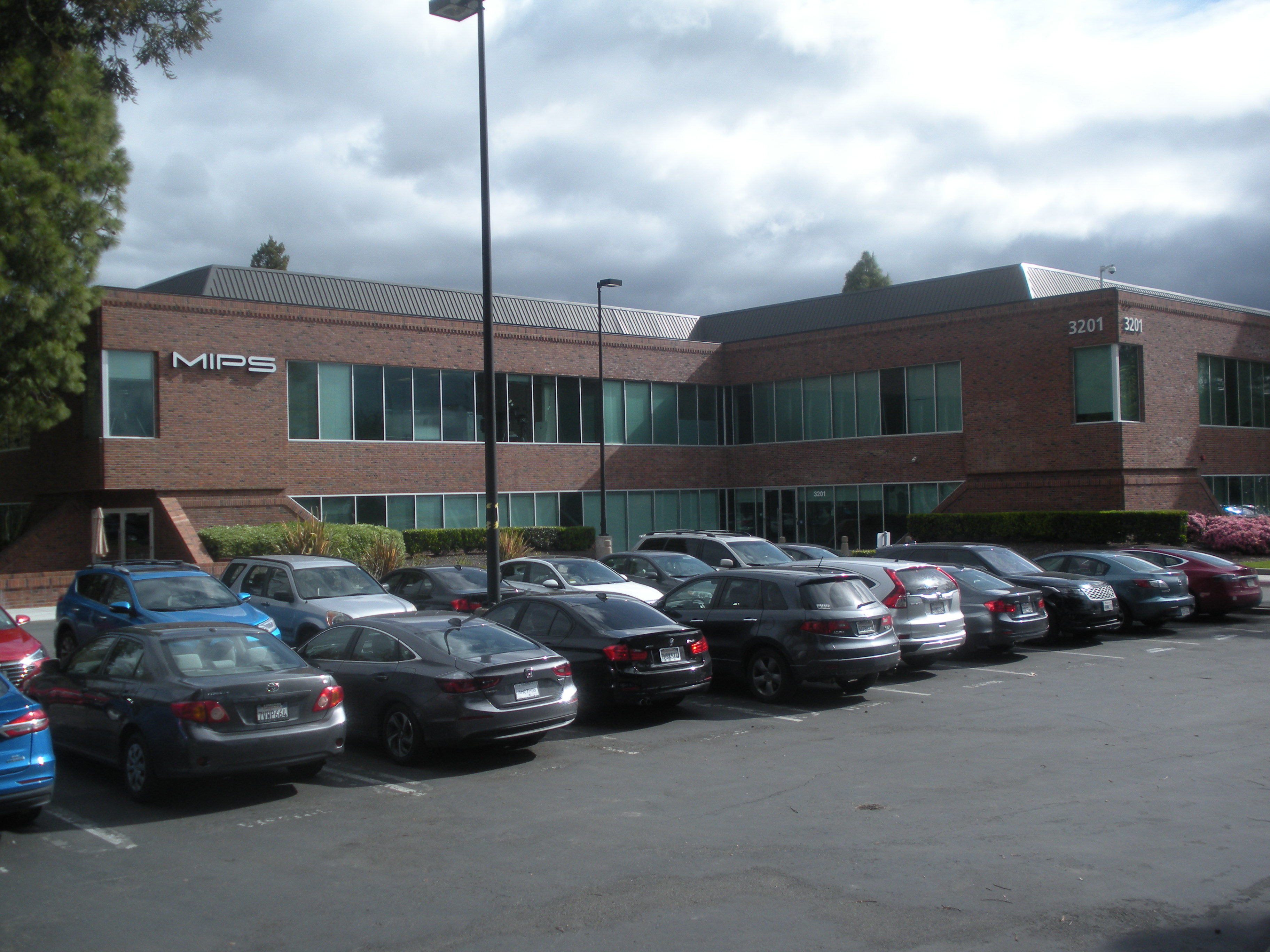 This is the former MIPS Technologies building in Santa Clara, now in use by other companies. Originally posted to my Flickr